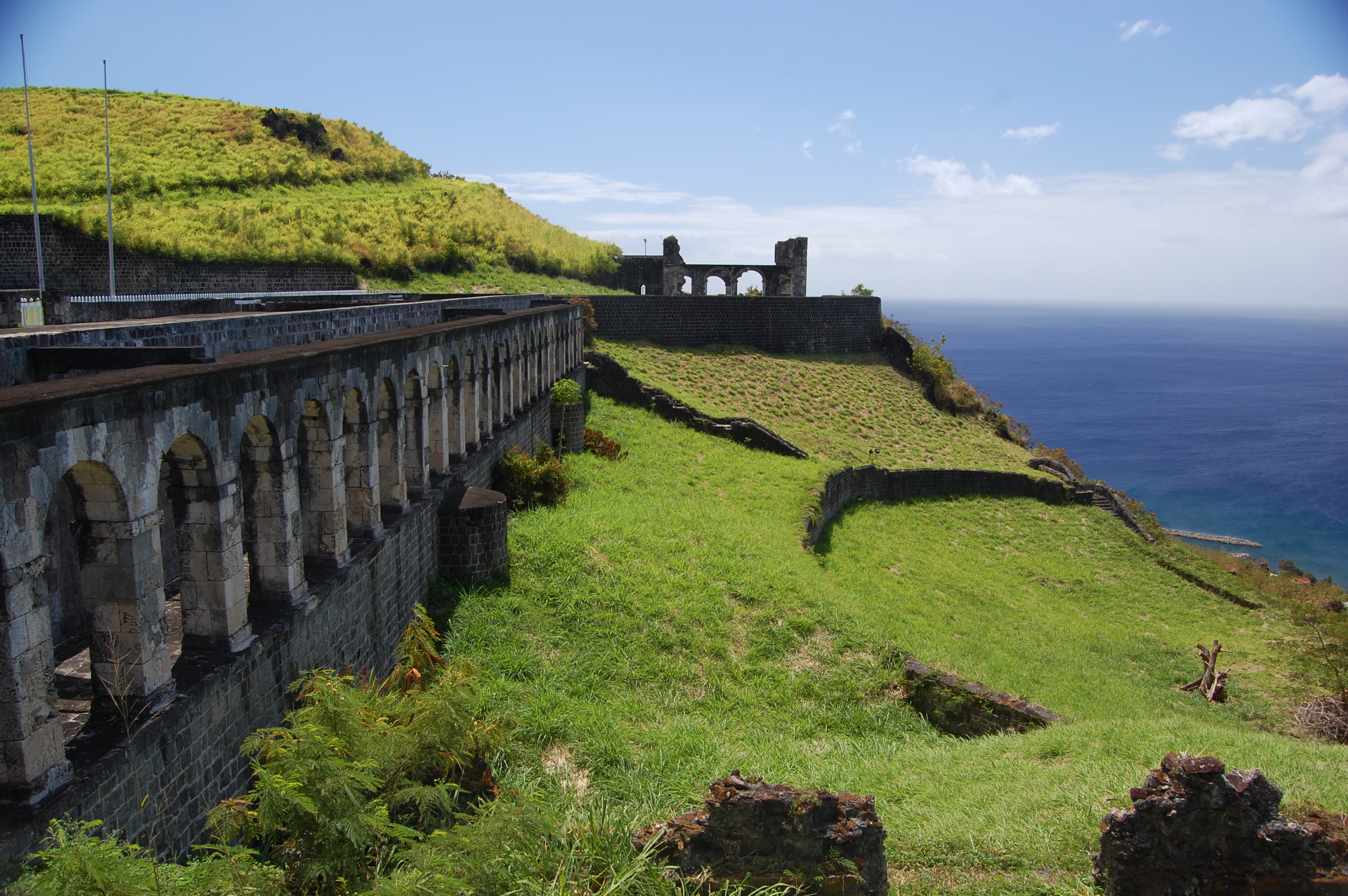 DSC_0325, Location: The historical fortification, Brimstone Hill, in Saint Kitts and Nevis.